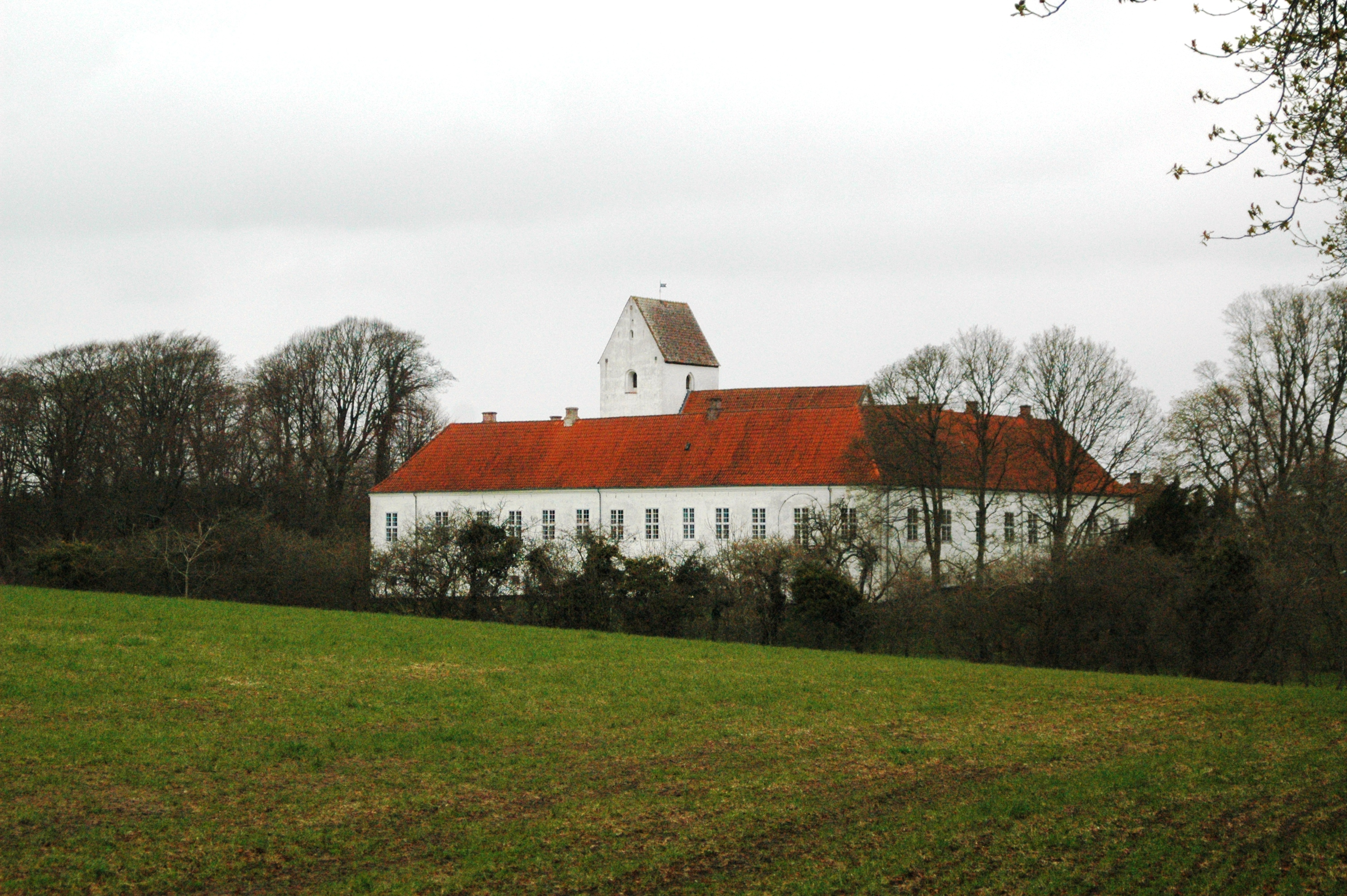 Oerslev Kloster